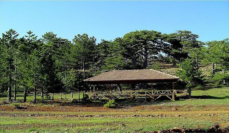 Ancient black pine forest in Topluklu Plain near Çiçekbaba Peak in Beyağaç, Denizli Province, Turkey